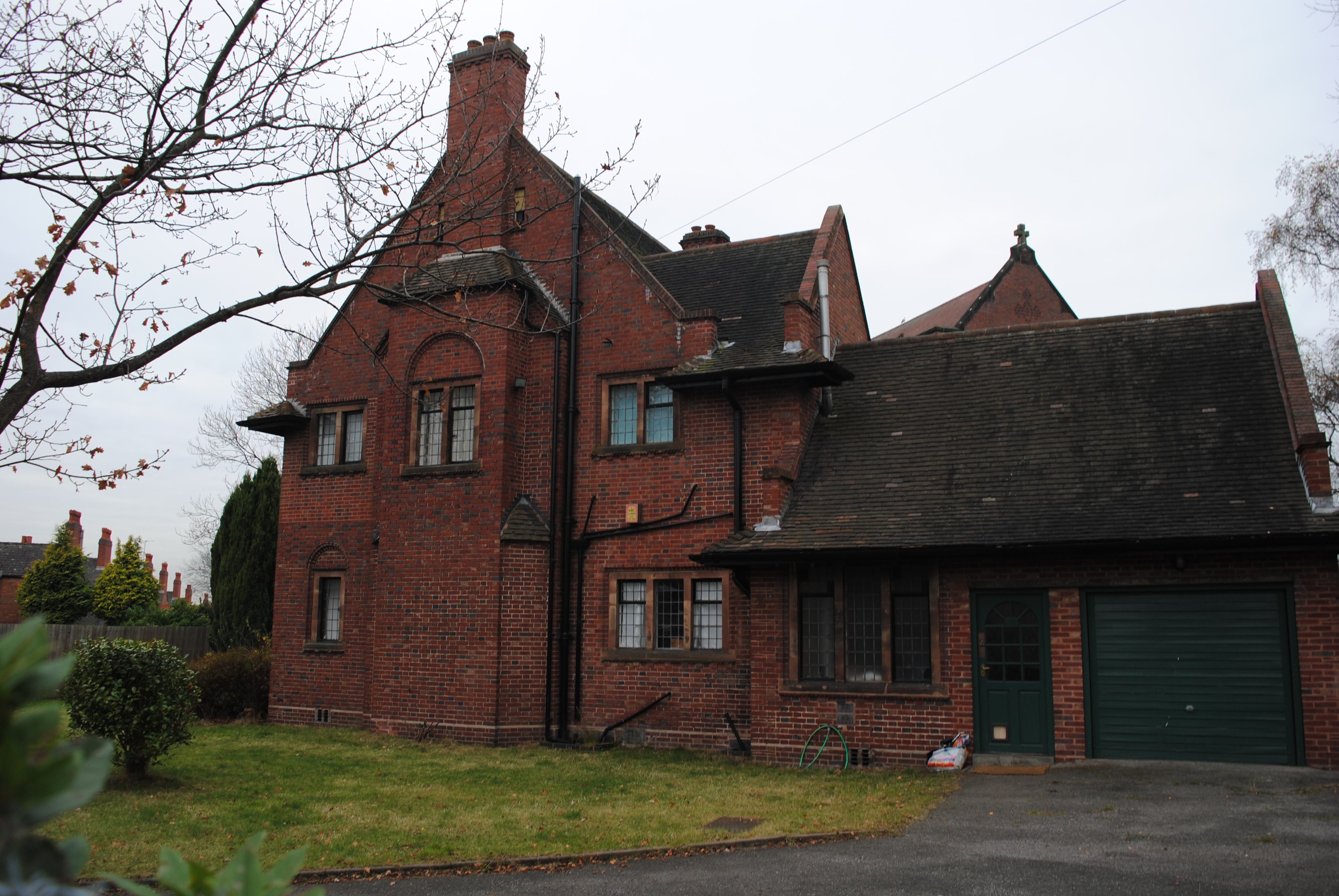 Vicarage of St Benedict's Church, Bordesley, Birmingham, England.